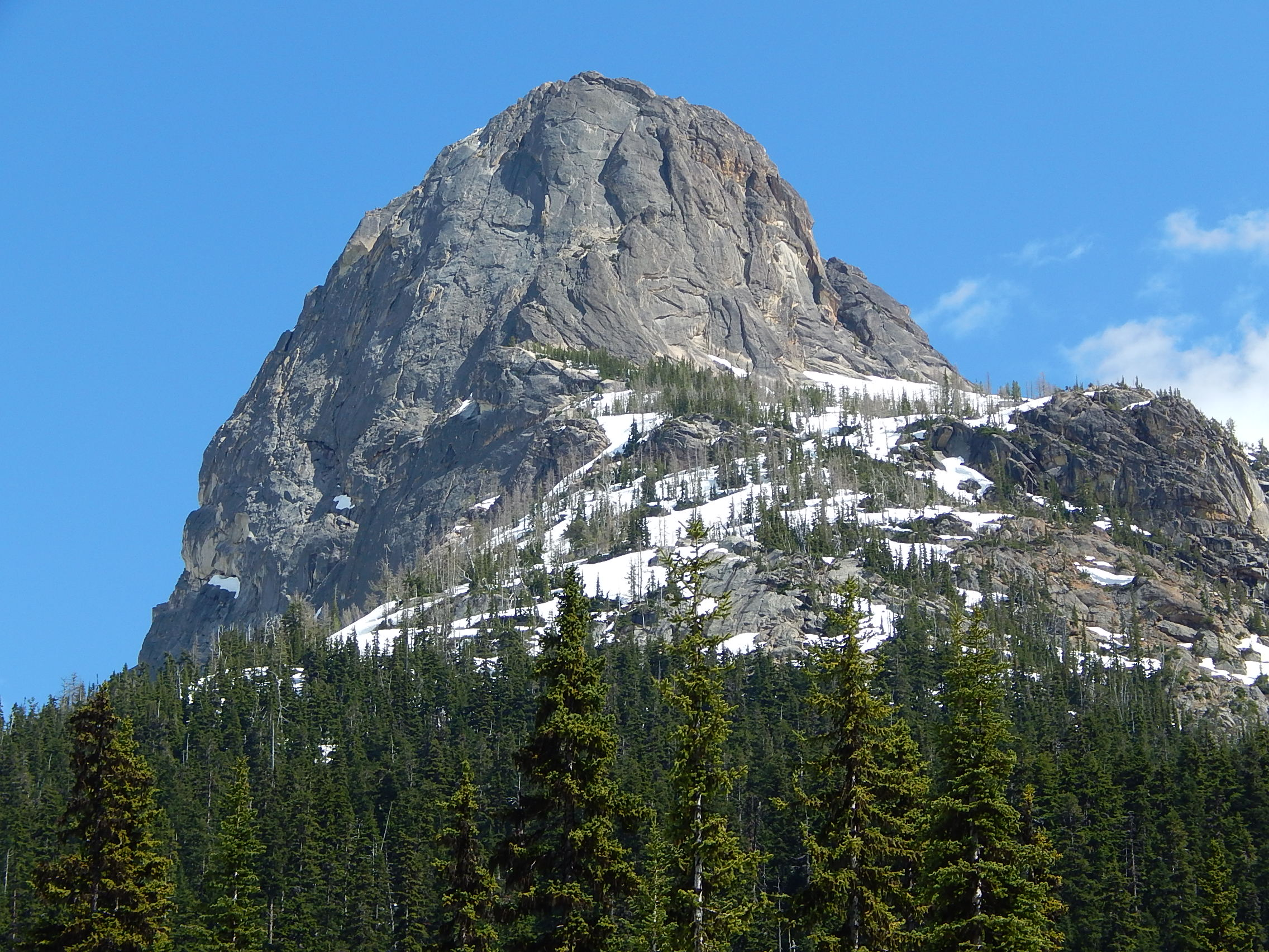 Liberty Bell Mountain seen from Highway 20 (the North Cascades Highway)